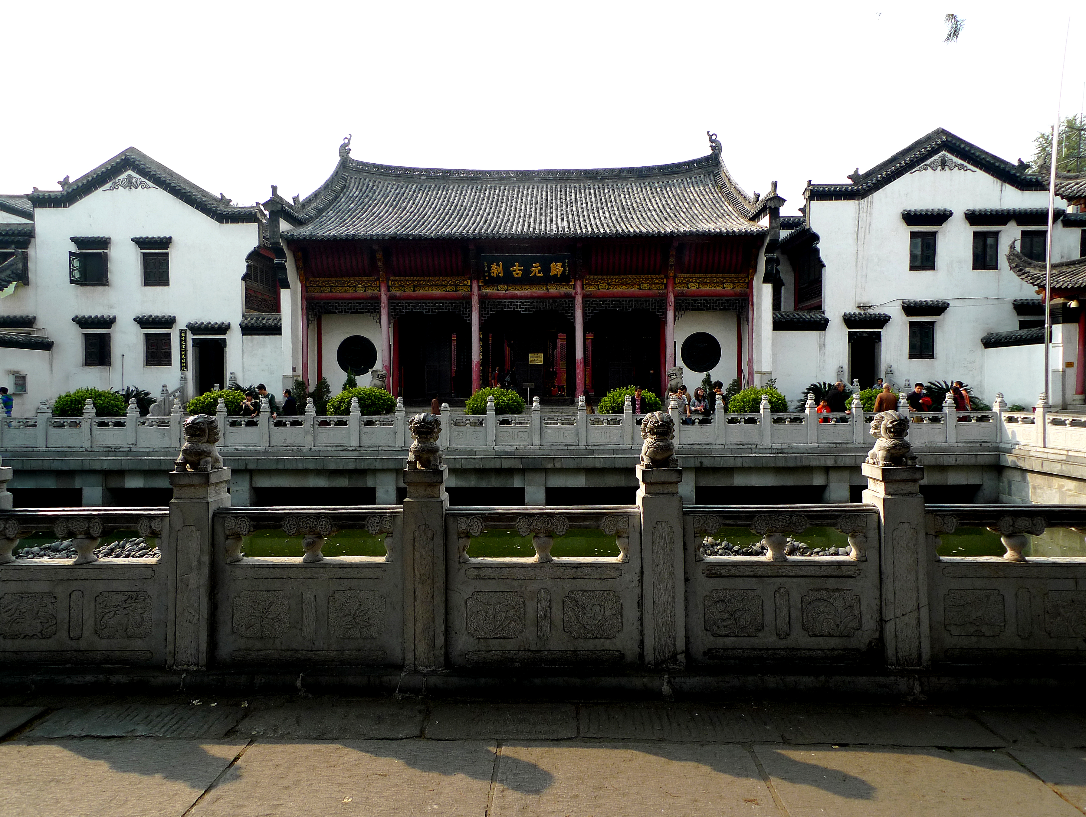 Wuhan Guiyan Buddhist Temple